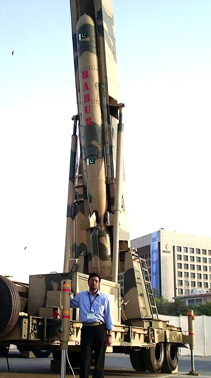 PAKISTAN's BABUR CRUESE MISSILE AT IDEAS 2006